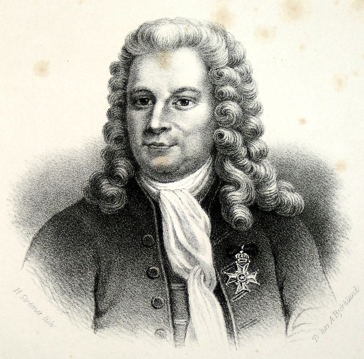 Portrait of Jonas Alströmer from the book "Svenska industriens män" (1875)